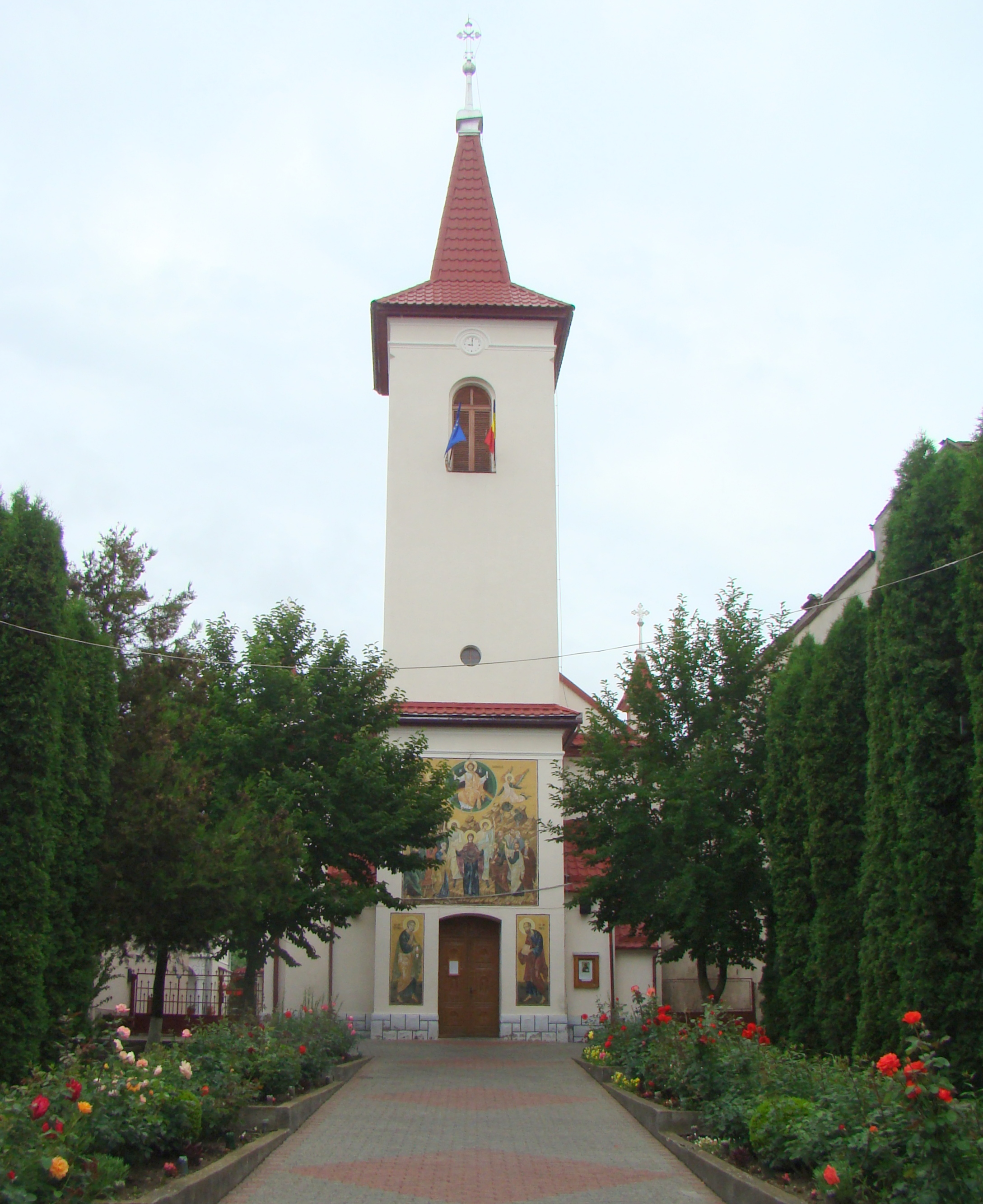 Church of the Ascension in Reghin, Mureş county, Romania